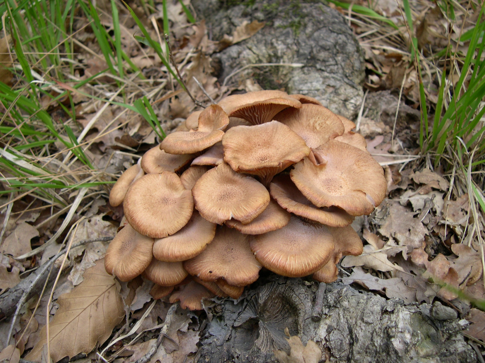 Clitocybe tabescens Preferred synonym: Armillaria tabescens Piacenza's mountains (Italy) - September 2005 by Archenzo